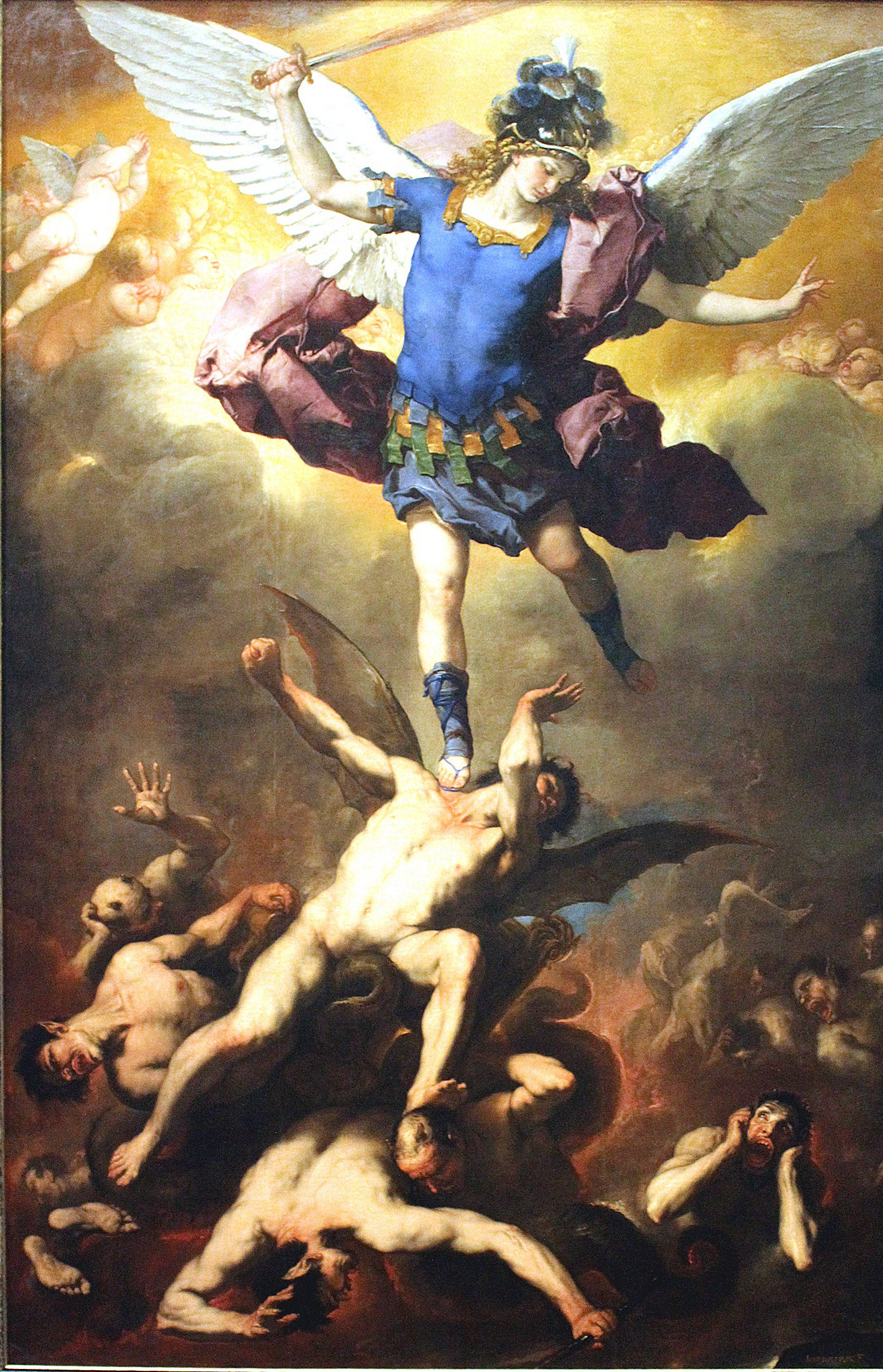 Vienna, Museum of Art History, Giordano, war in Heaven